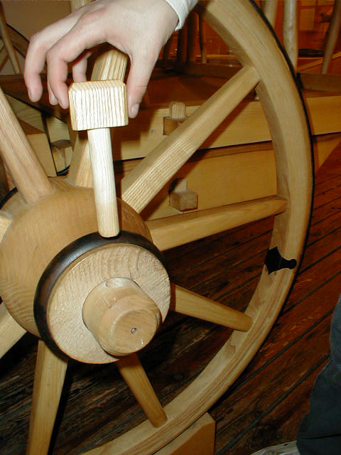 Walon: wesse d' on tchår